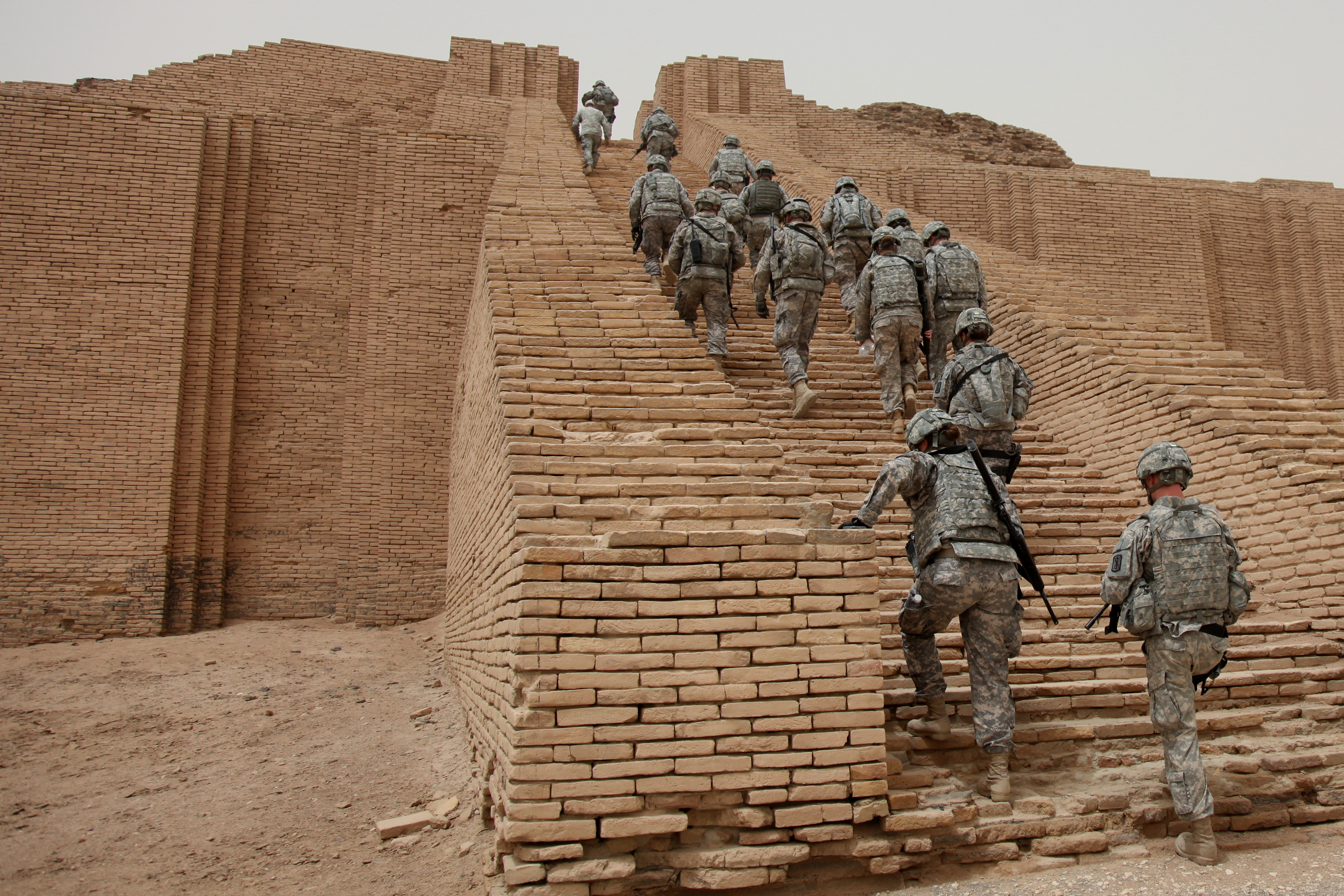 U.S. Soldiers from 17th Fires Brigade make their way up the Ziggurat of Ur, Iraq near Contingency Operating Base Adder, May 18. The Ziggurat was constructed as a place of worship in the 21st century B.C. and today after more than 4,000 years it is one of the most well-preserved structures of the Neo-Sumerian city of Ur. Unit: Joint Combat Camera Center Iraq